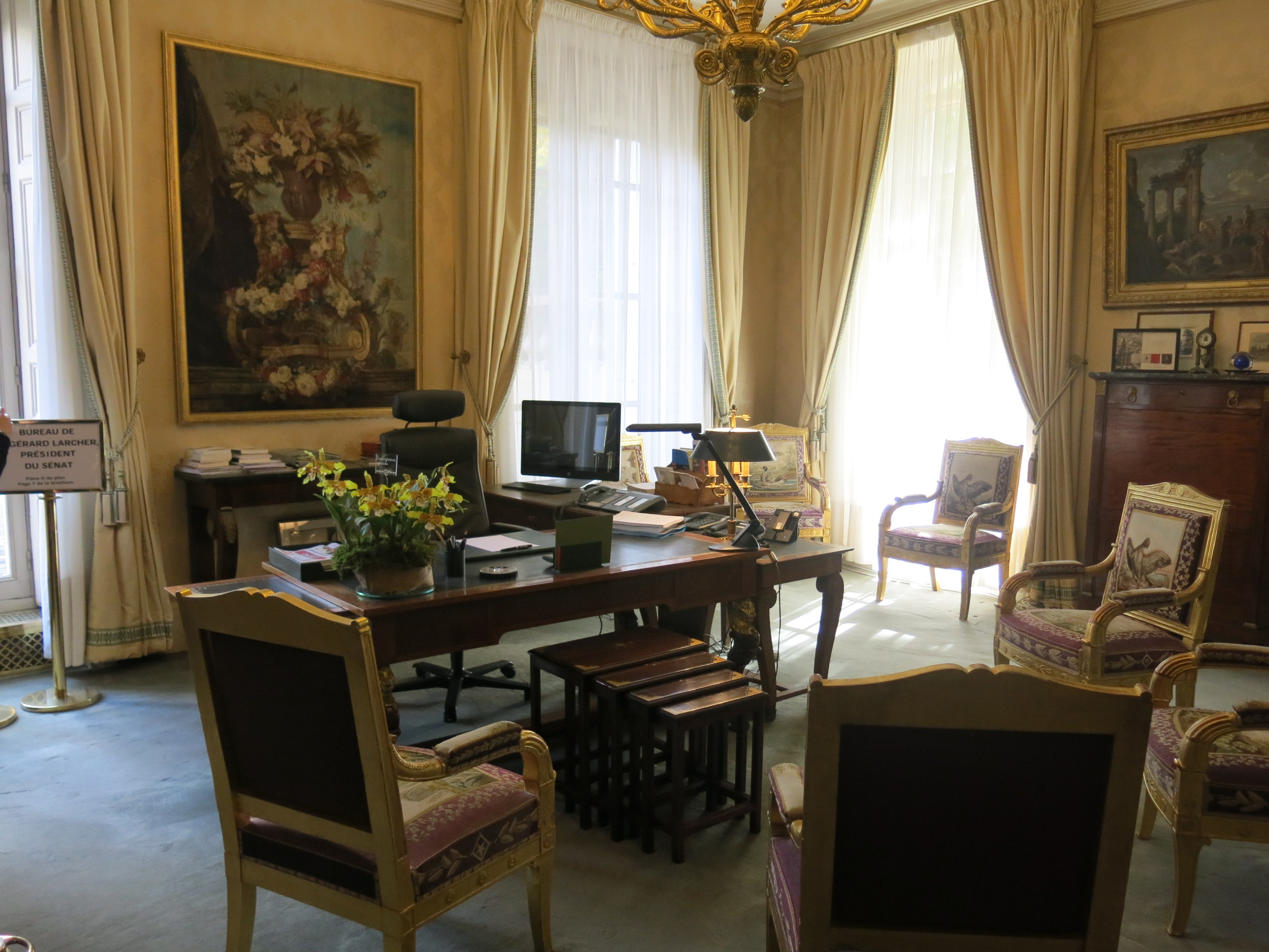 Office of the French Senate president in the palais du Luxembourg (Paris, France).